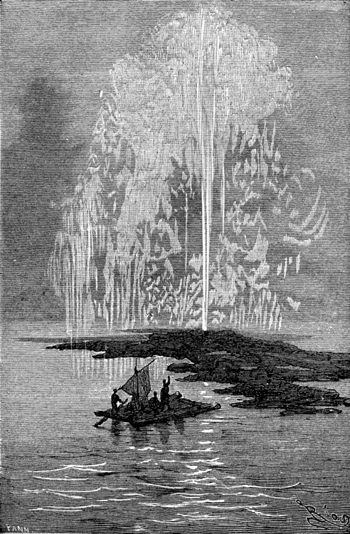 An ilustration from the novel "Journey to the Center of the Earth" by Jules Verne painted by Édouard Riou.